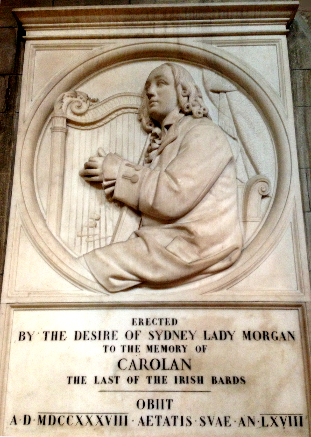 A photograph of the memorial to Irish musician Turlough O'Carolan located in St. Patrick's Cathedral in Dublin Ireland